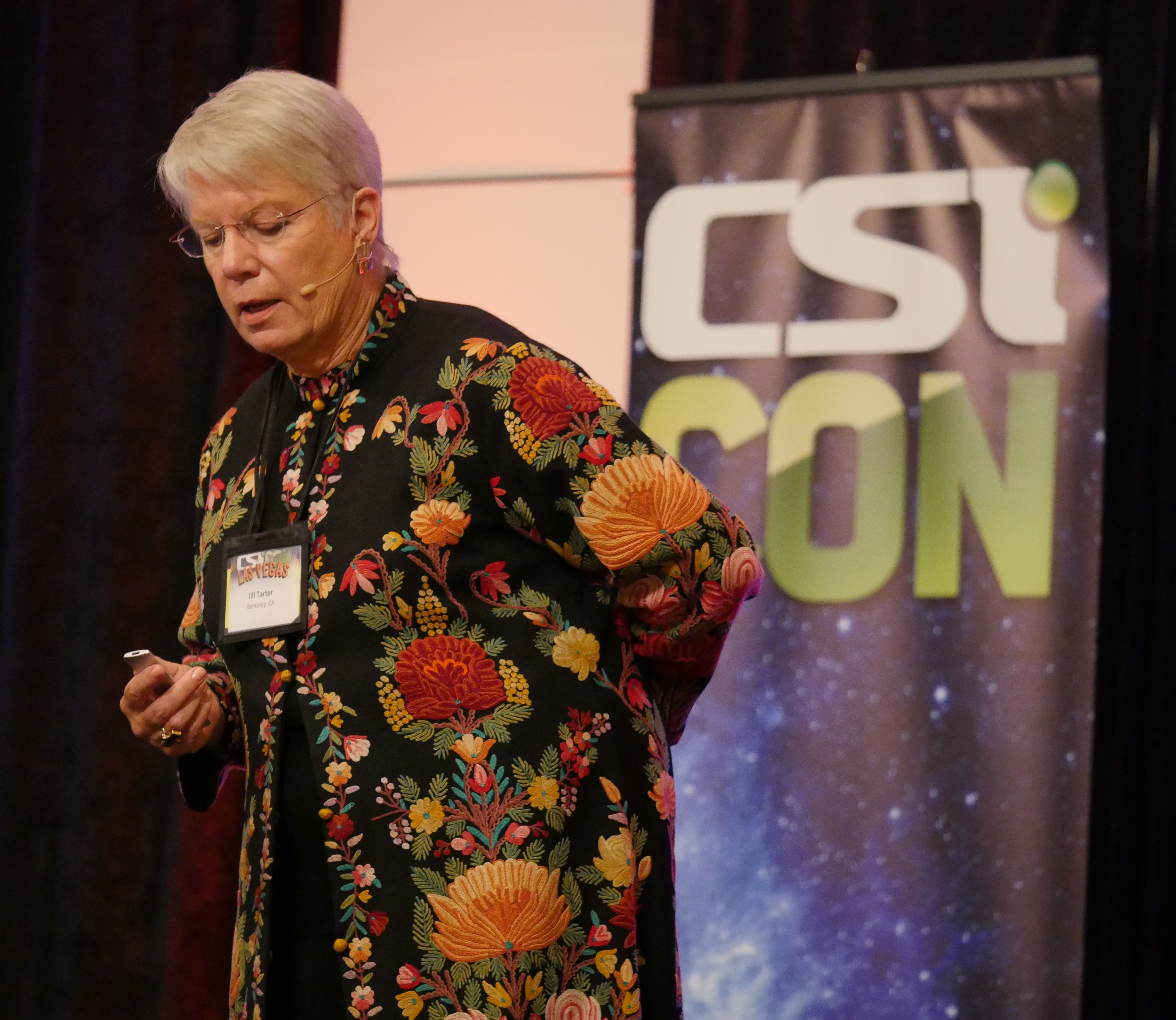 Jill Tarter Life Beyond Earth CSICon 2016